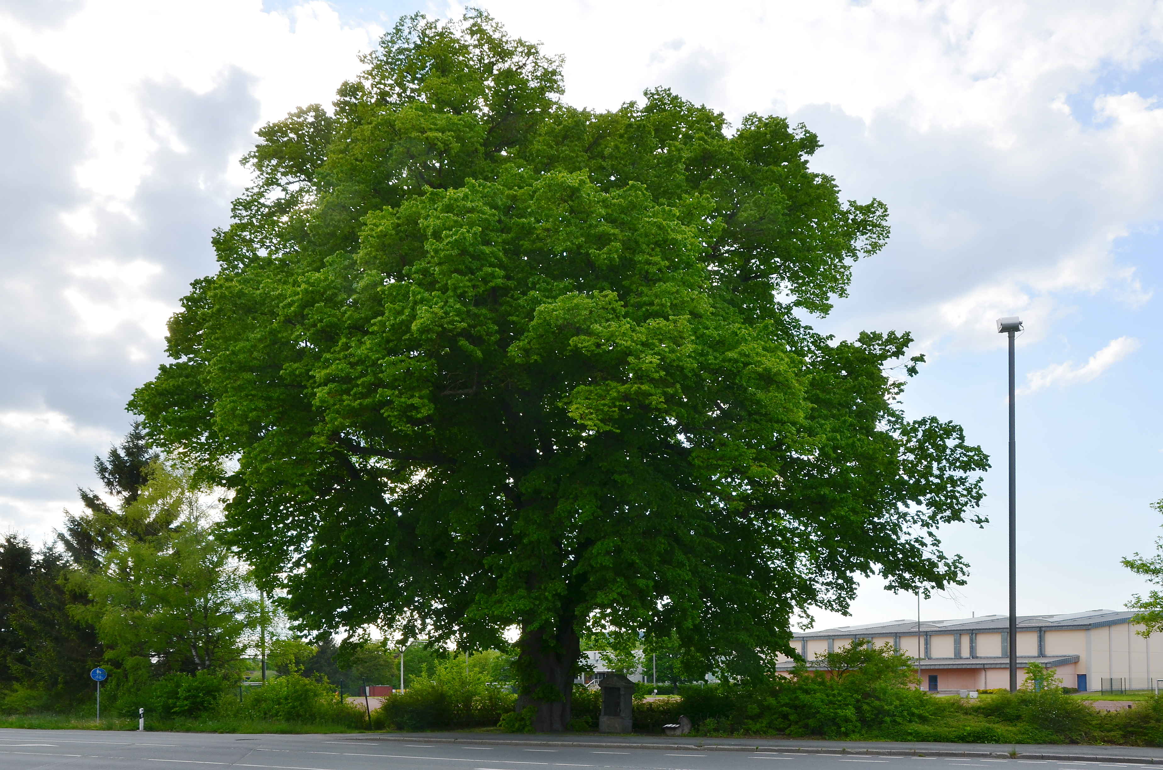 Natural Monument Linde (Jakobuslinde), ND-063, Brilon, Altenbürener Straße, sports ground